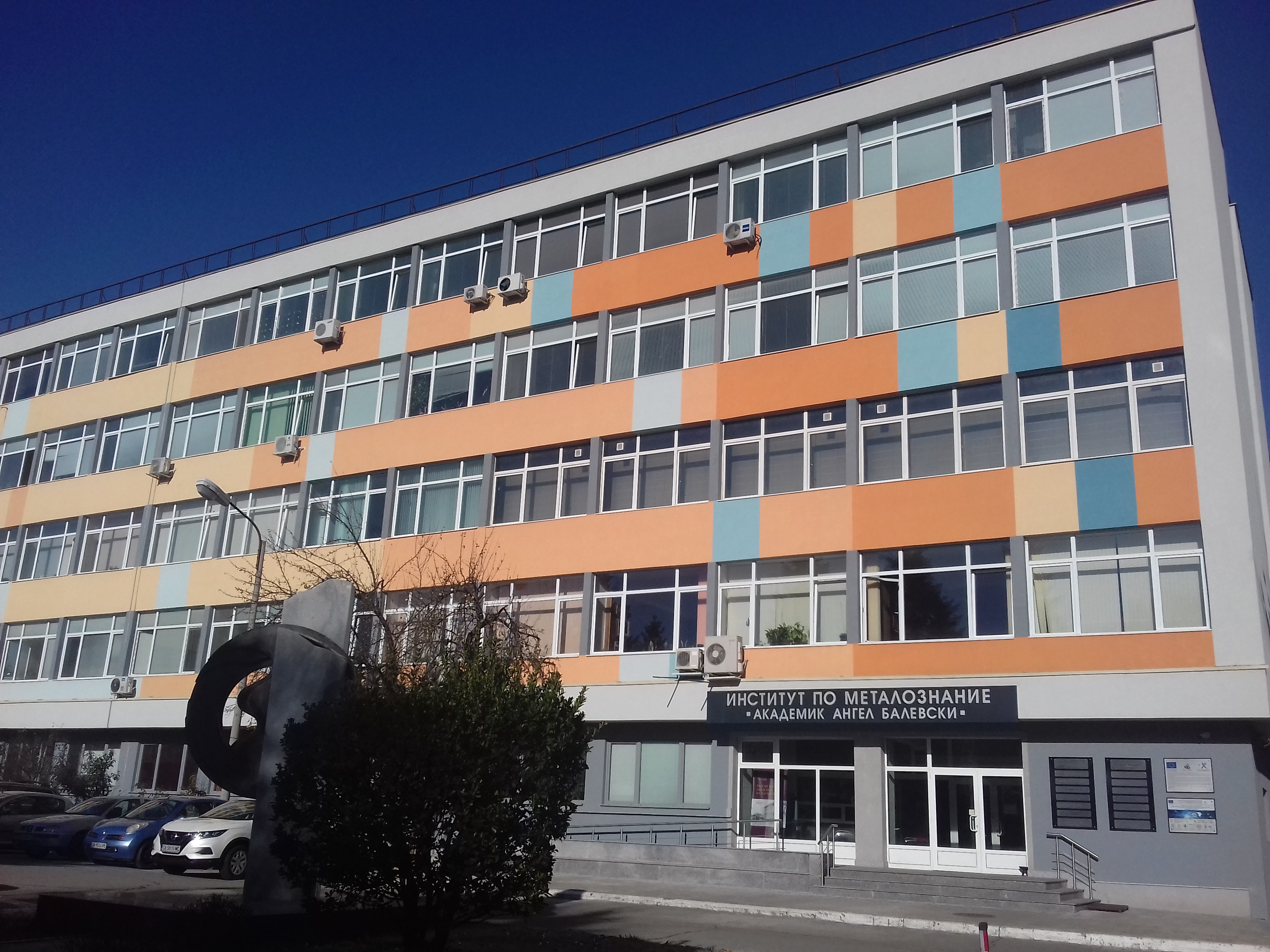 Institute of metal science, equipment and technologies with hidro- and aerodynamics centre "Acad. A. Balevski", Bulgarian Academy of Science, Sofia, Bulgaria